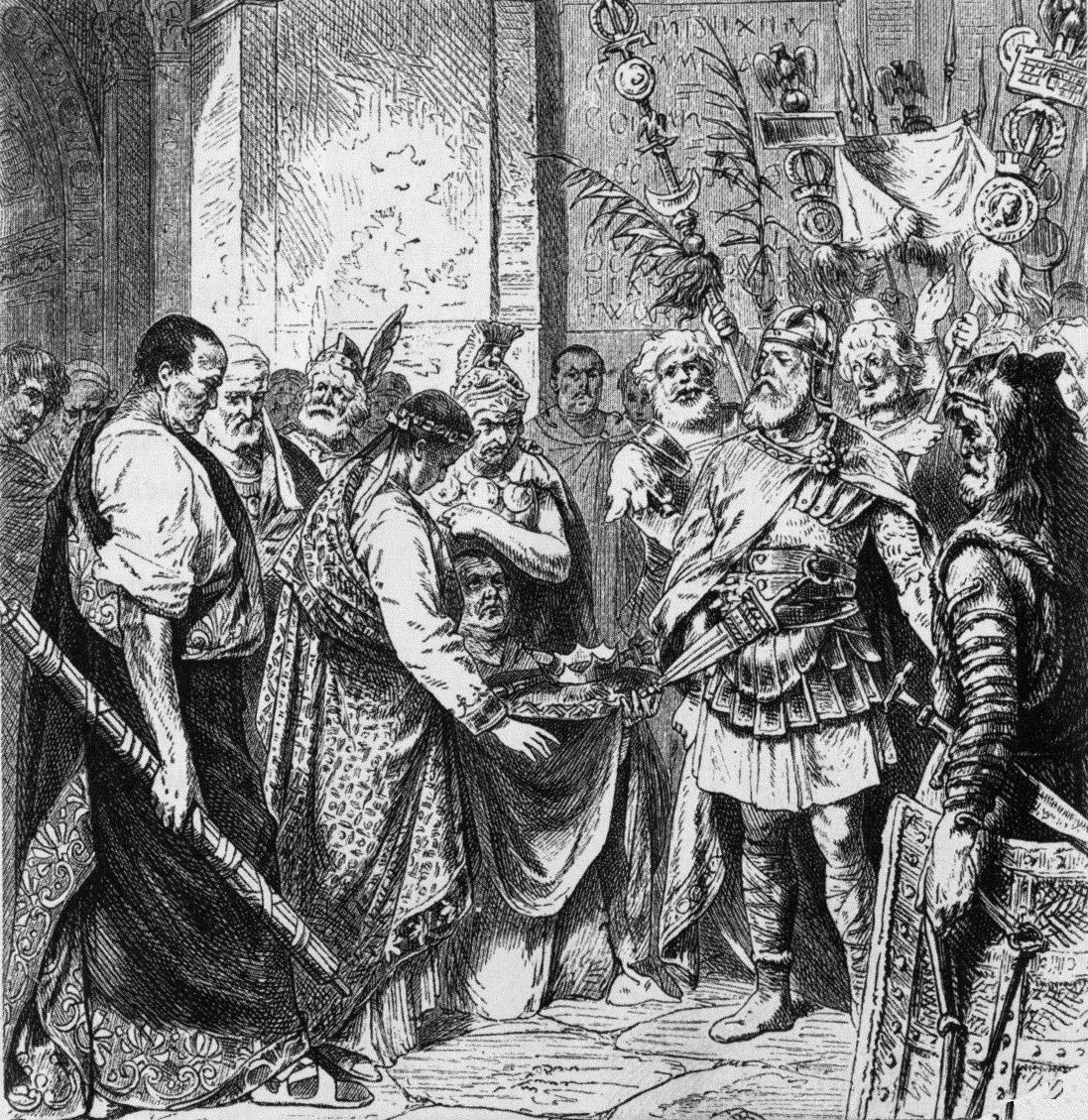 Romulus Augustulus resigns the Roman crown to and Odoacer